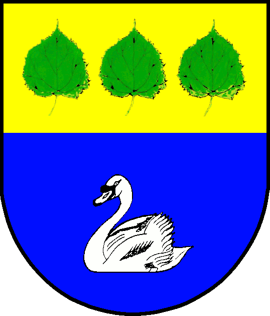 Coat of arms of the municipality Winnemark in Schleswig-Holstein, Germany.